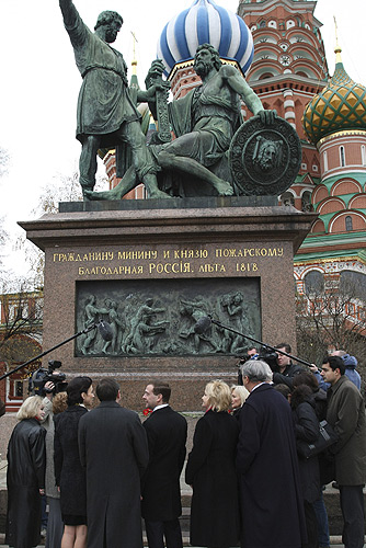 THE RED SQUARE, MOSCOW. Together with leaders of social organisations and representatives of compatriots abroad, the President laid flowers at the monument to Kuzma Minin and Dmitry Pozharsky in honour of National Unity Day.